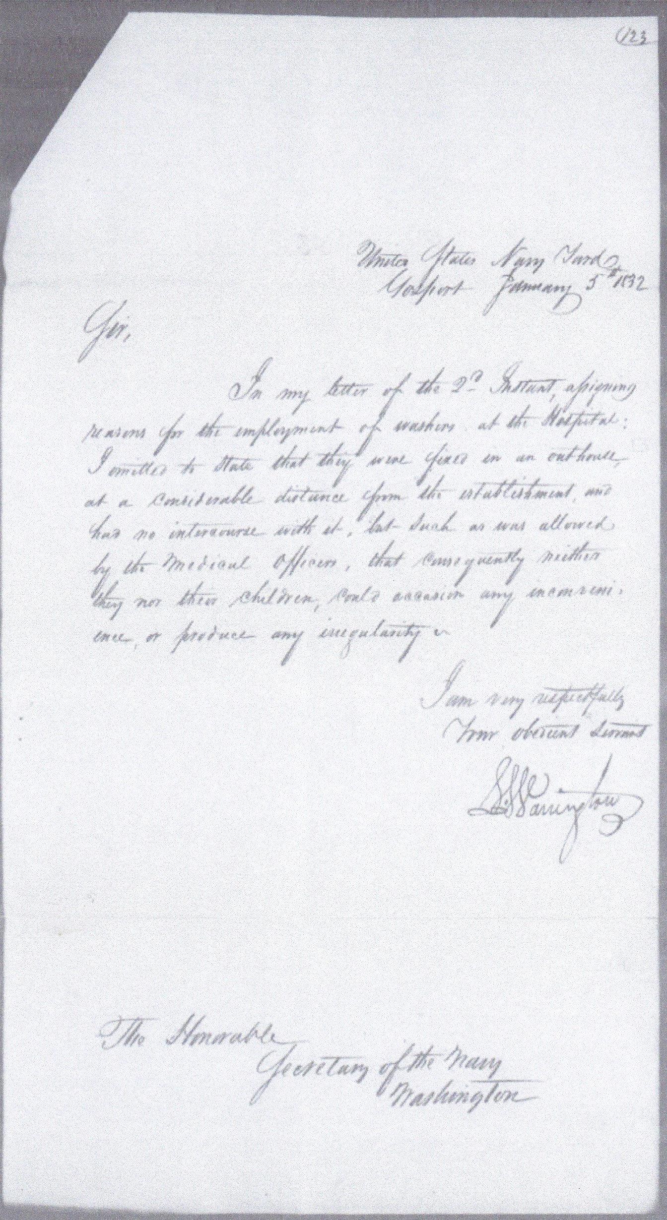 Commodore Lewis Warrington to Sec Nav re the employment and housing of enslaved washer women and their children at Gosport Naval Hospital dated 5 Jan 1832